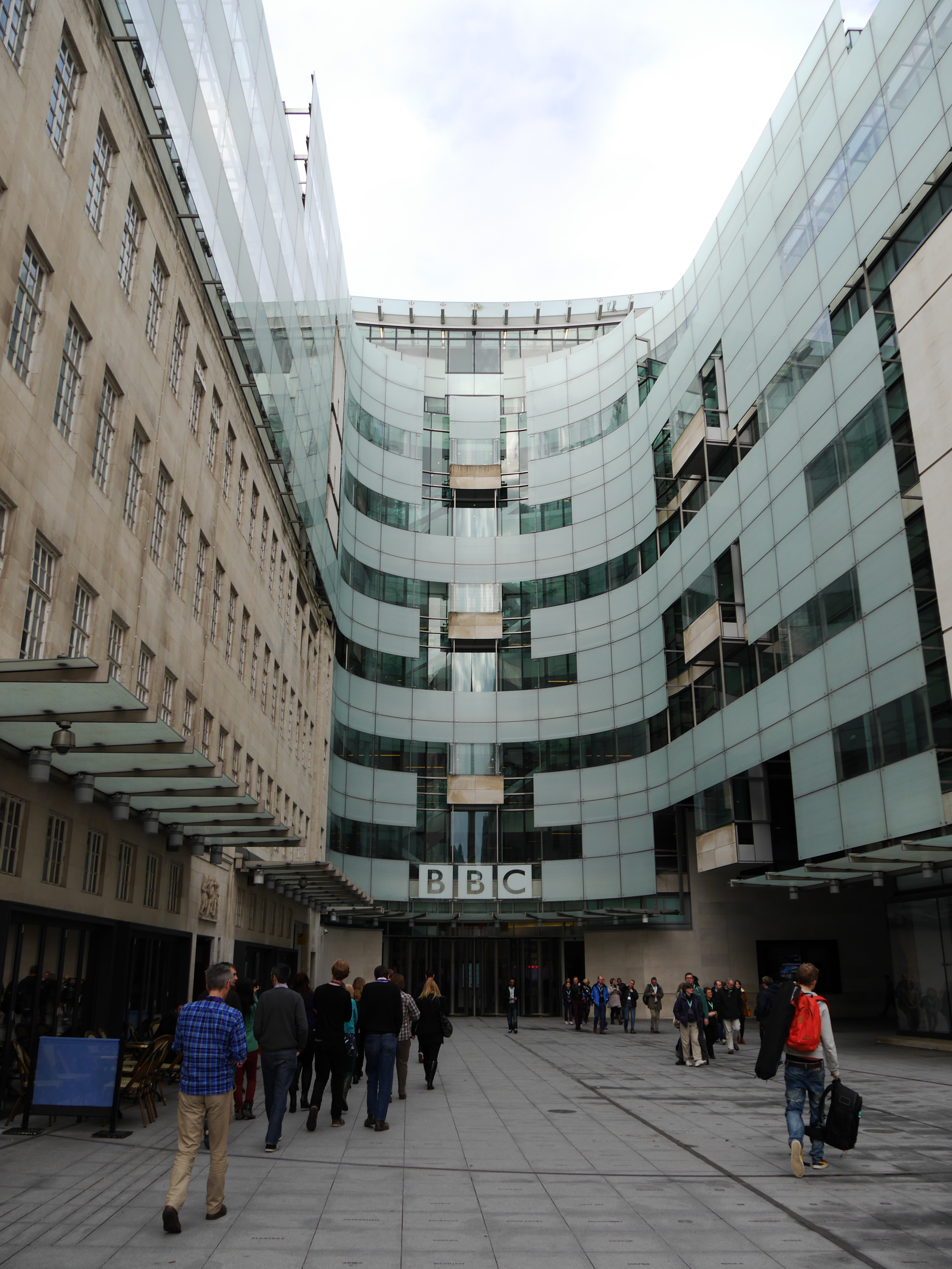 BBC Speakerthon, Broadcasting House, London, 18 Jan 2014